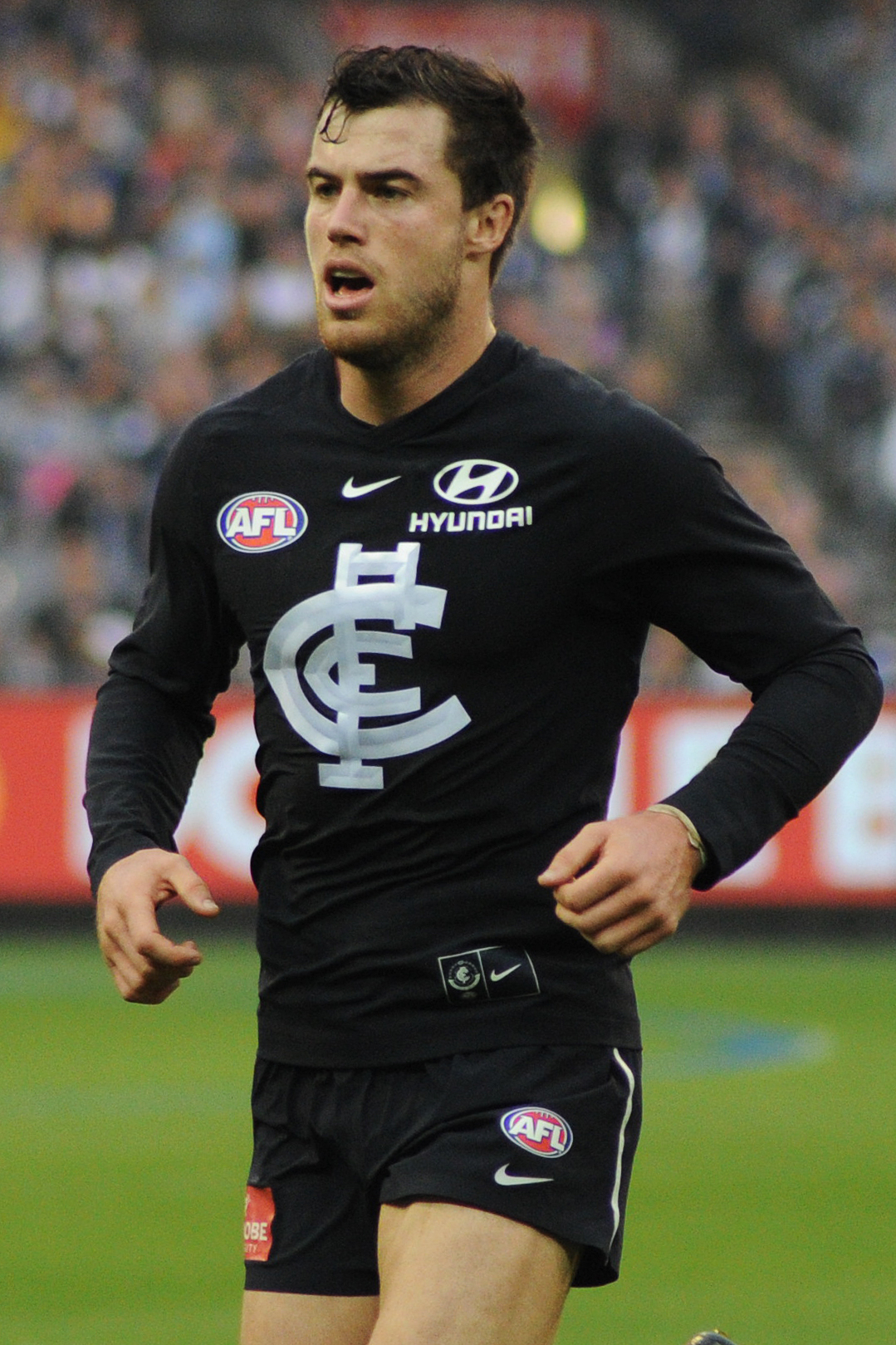 Lachie Plowman during the AFL round five match between Carlton and West Coast on 21 April 2018 at the Melbourne Cricket Ground in Melbourne, Victoria.